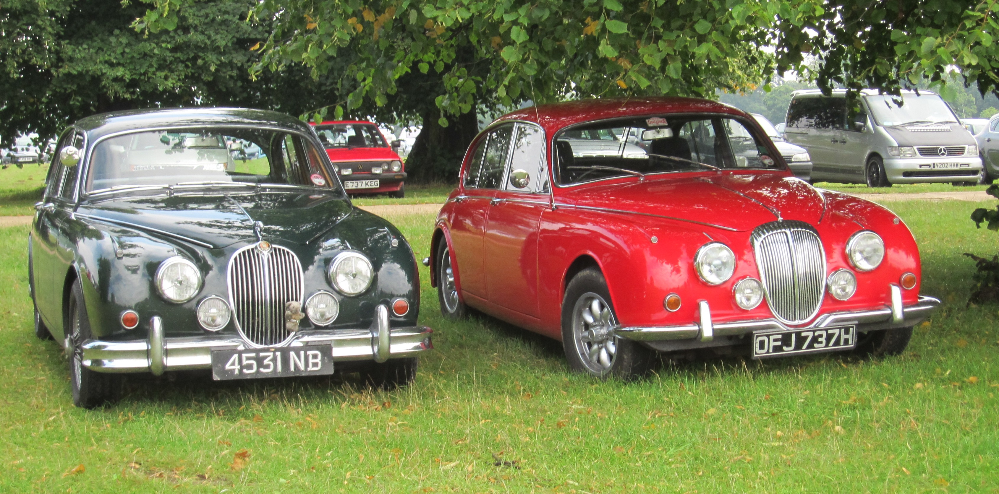 A 1960 Jaguar MkII AND Daimler Daimler V8-250 together under a tree. Same body but different engines and grills